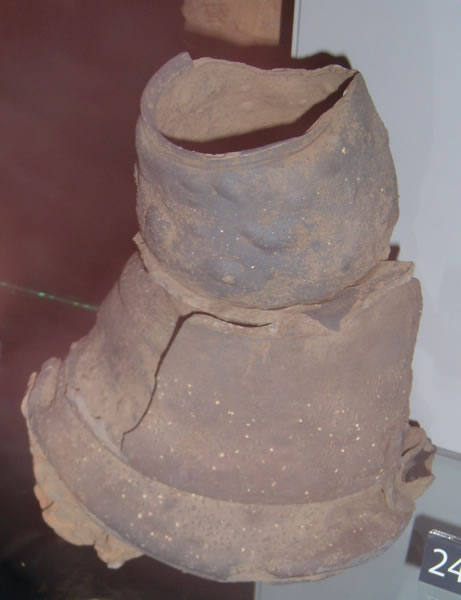 Waster from a Roman pottery kiln in Colchester, on display in Colchester Castle